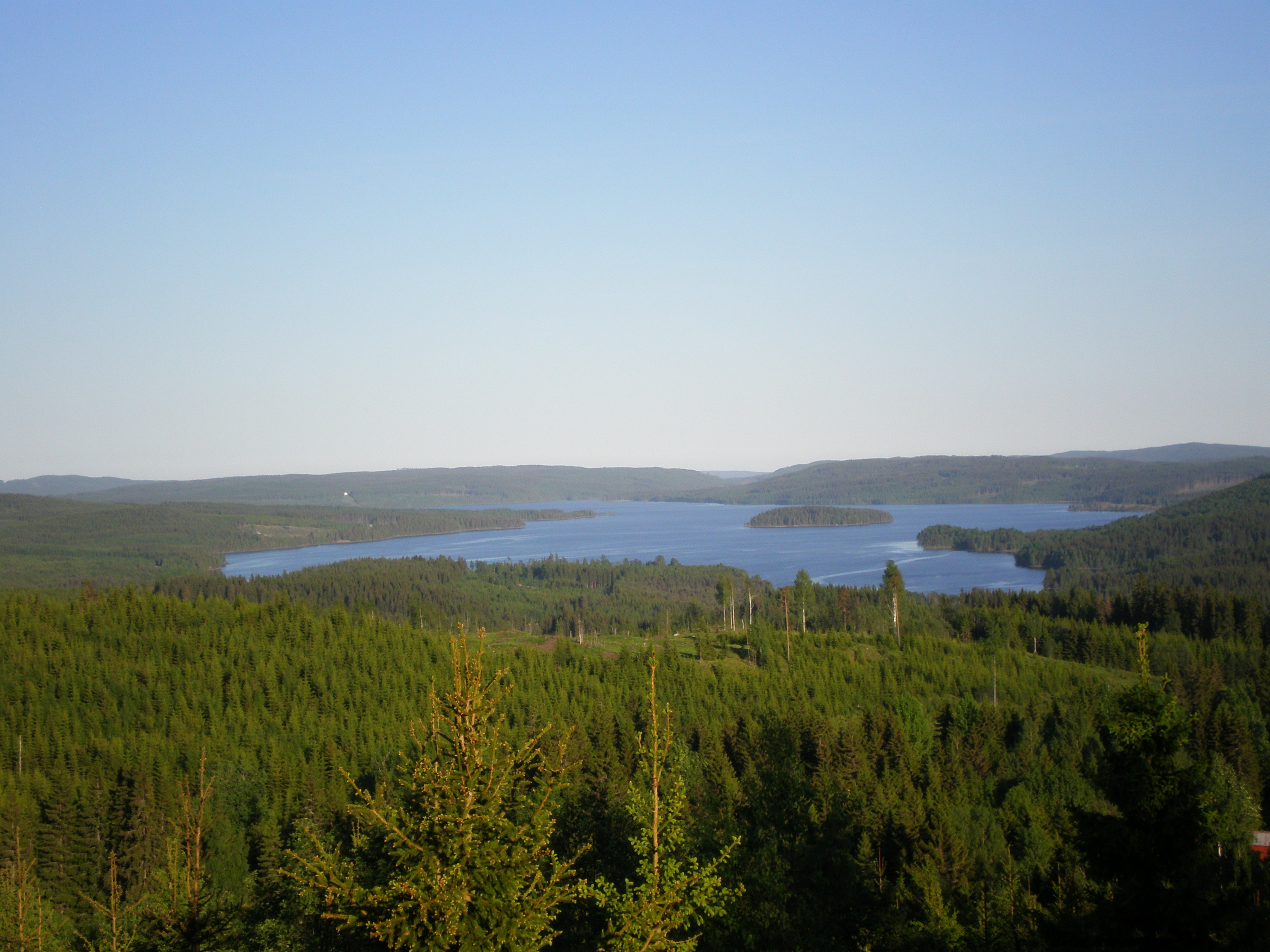 Lake Kymmen from Kullberget, Gräsmark